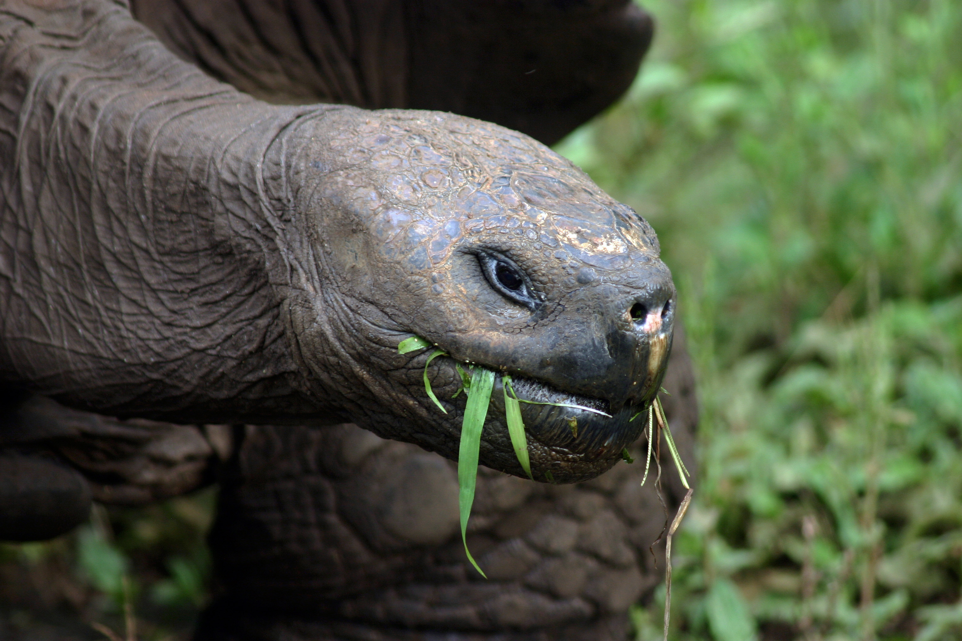 Head of a male Galápagos tortoise (Chelonoidis nigra) feeding on Santa Cruz Island, Galapagos Islands.